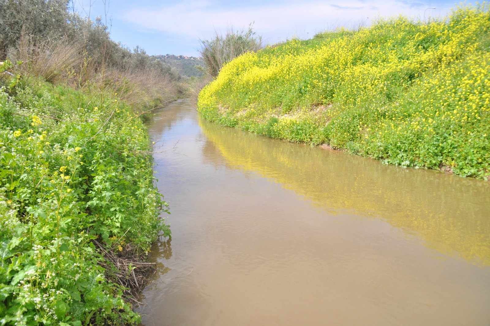 Geography of Israel